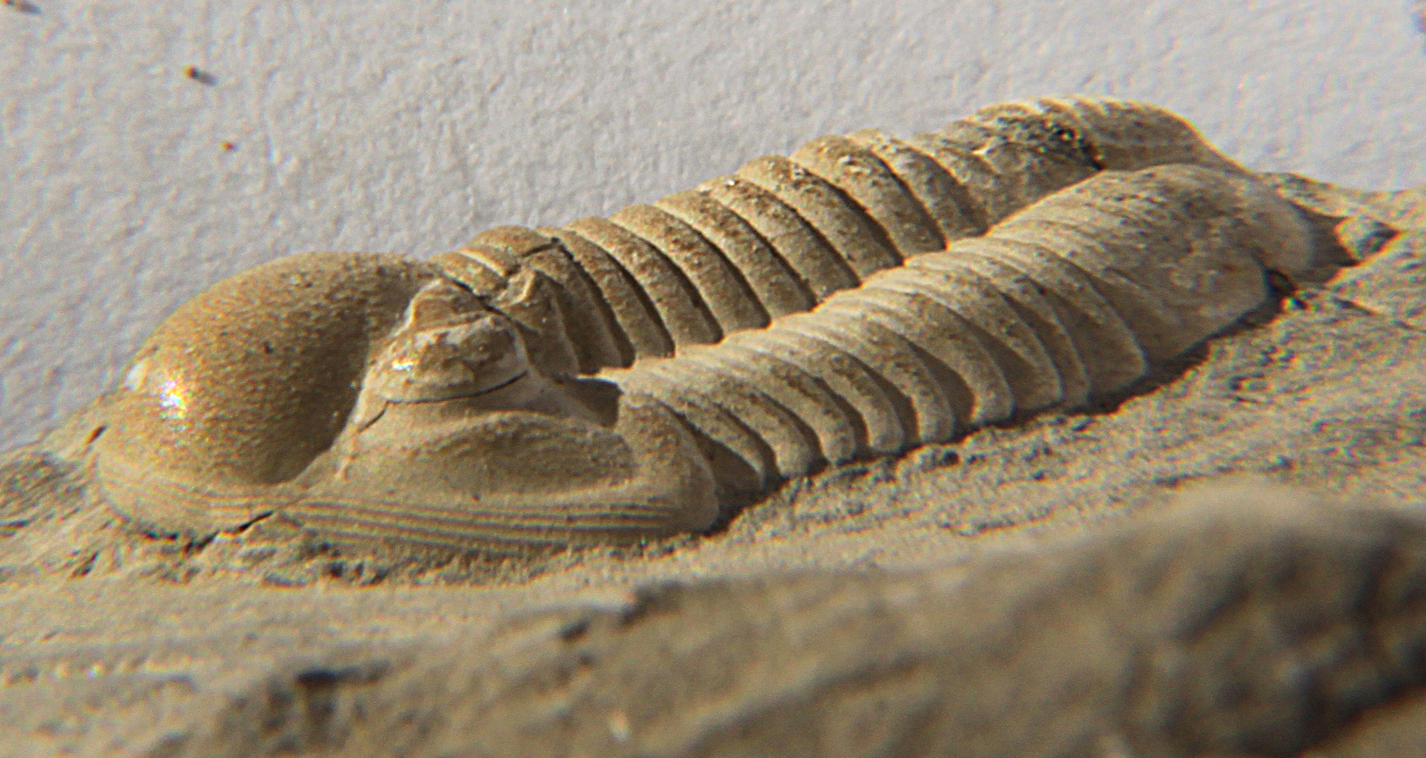 A specimens of Cummingella belisama, Order Proetida, Family Proetidae, 18mm along the axis, lateral view, natural contrast, collected from the Kohlenkalk of Tournai, Belgium, from the Lower Carboniferous/Missisippian (Tournaisian)